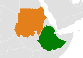 Map highlighting Ethiopia in green and Sudan in orange for use in Ethiopia–Sudan relations